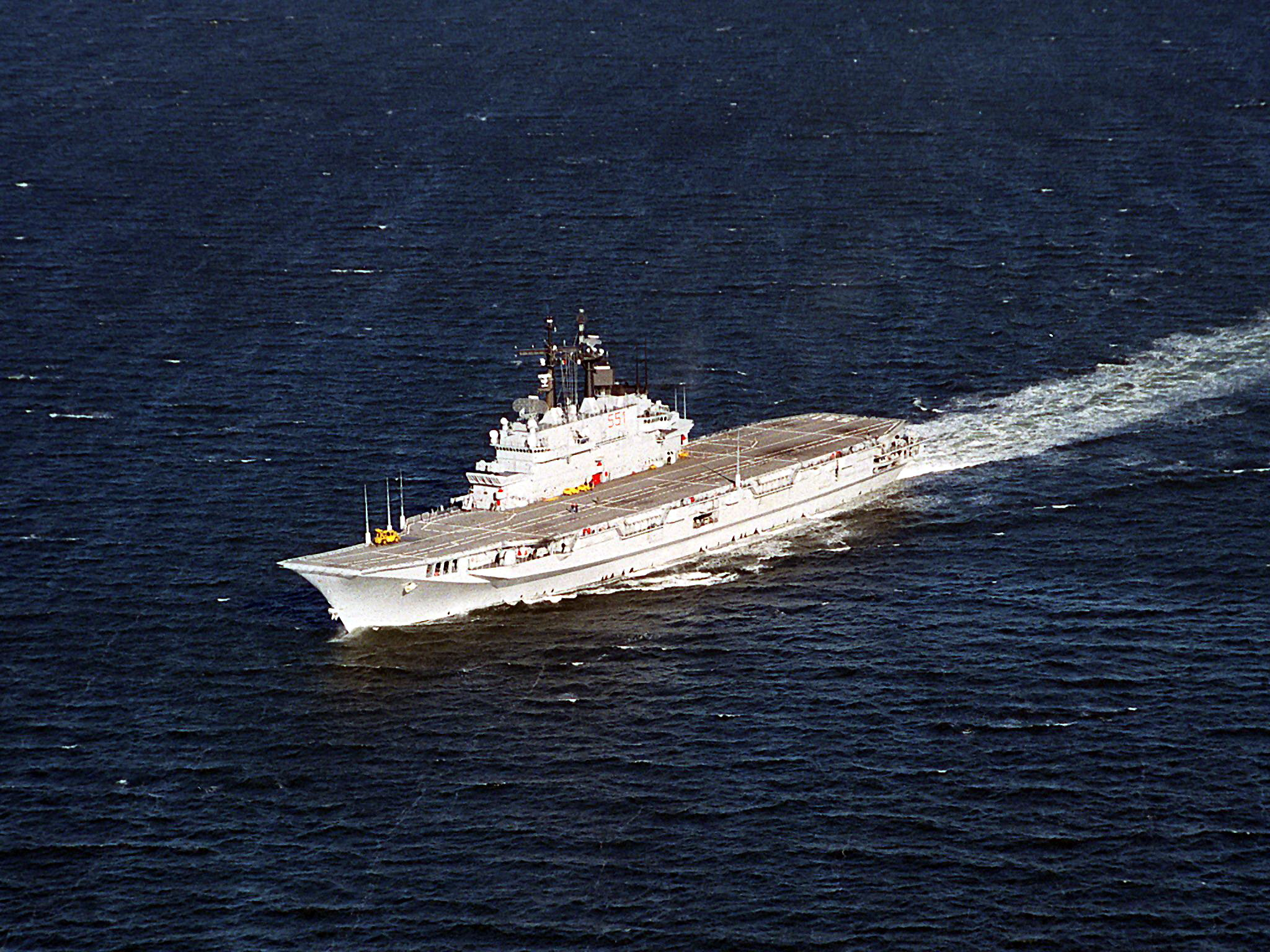 1(cropped) A port bow view of the Italian aircraft carrier ITS GIUSEPPE GARIBALDI (C-551) underway en route to Boston for a port visit.